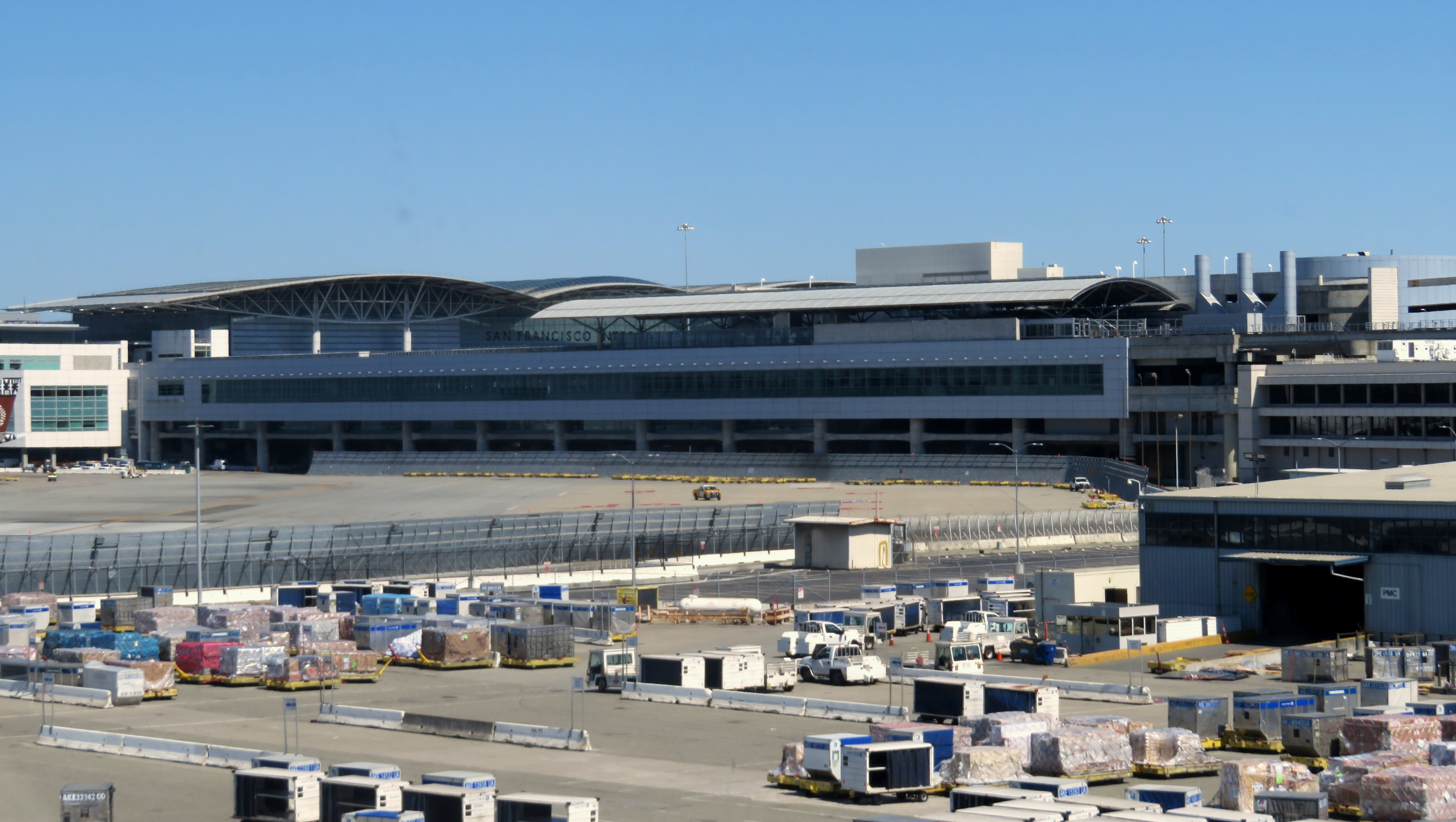 SFO station from the AirTrain in July 2018